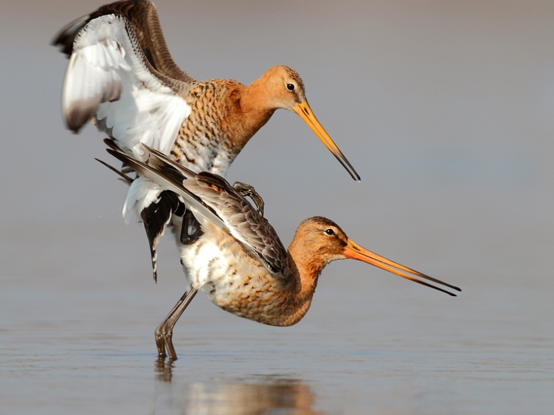 Godwits making love